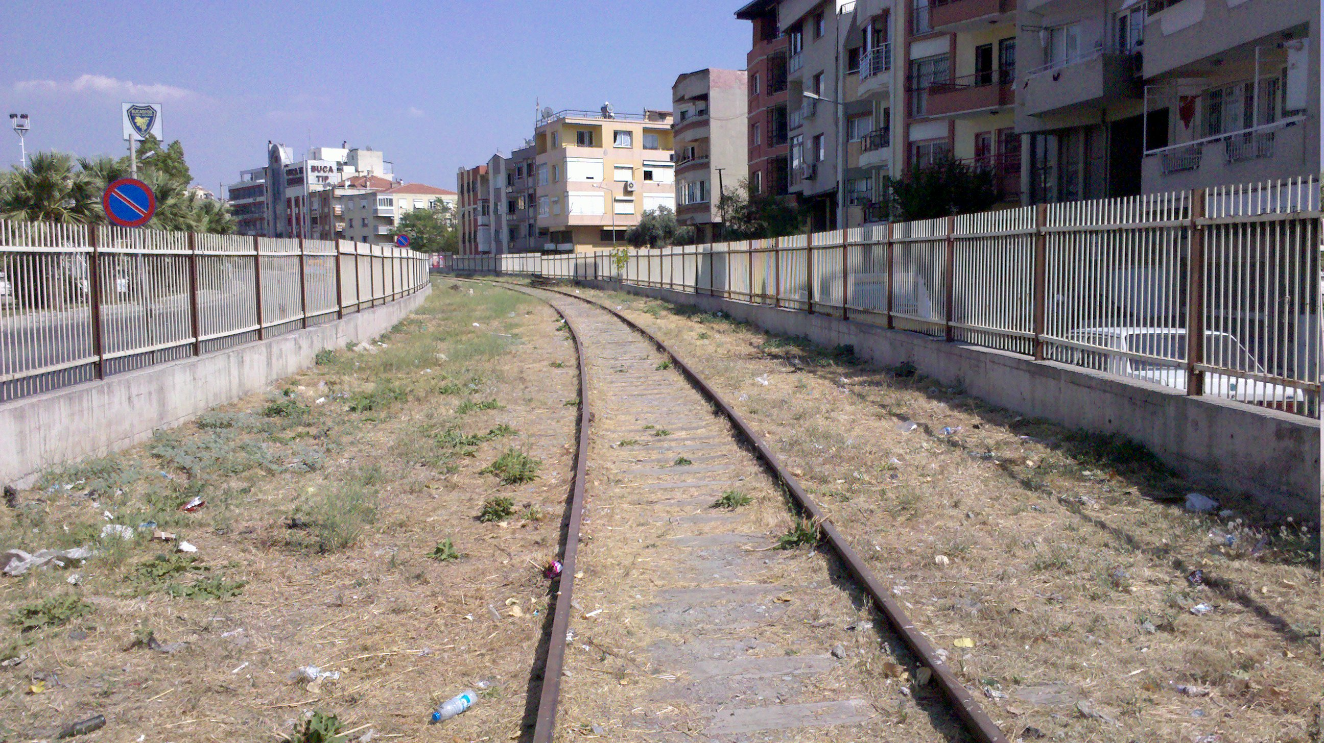 The abandoned Buca railway branch.